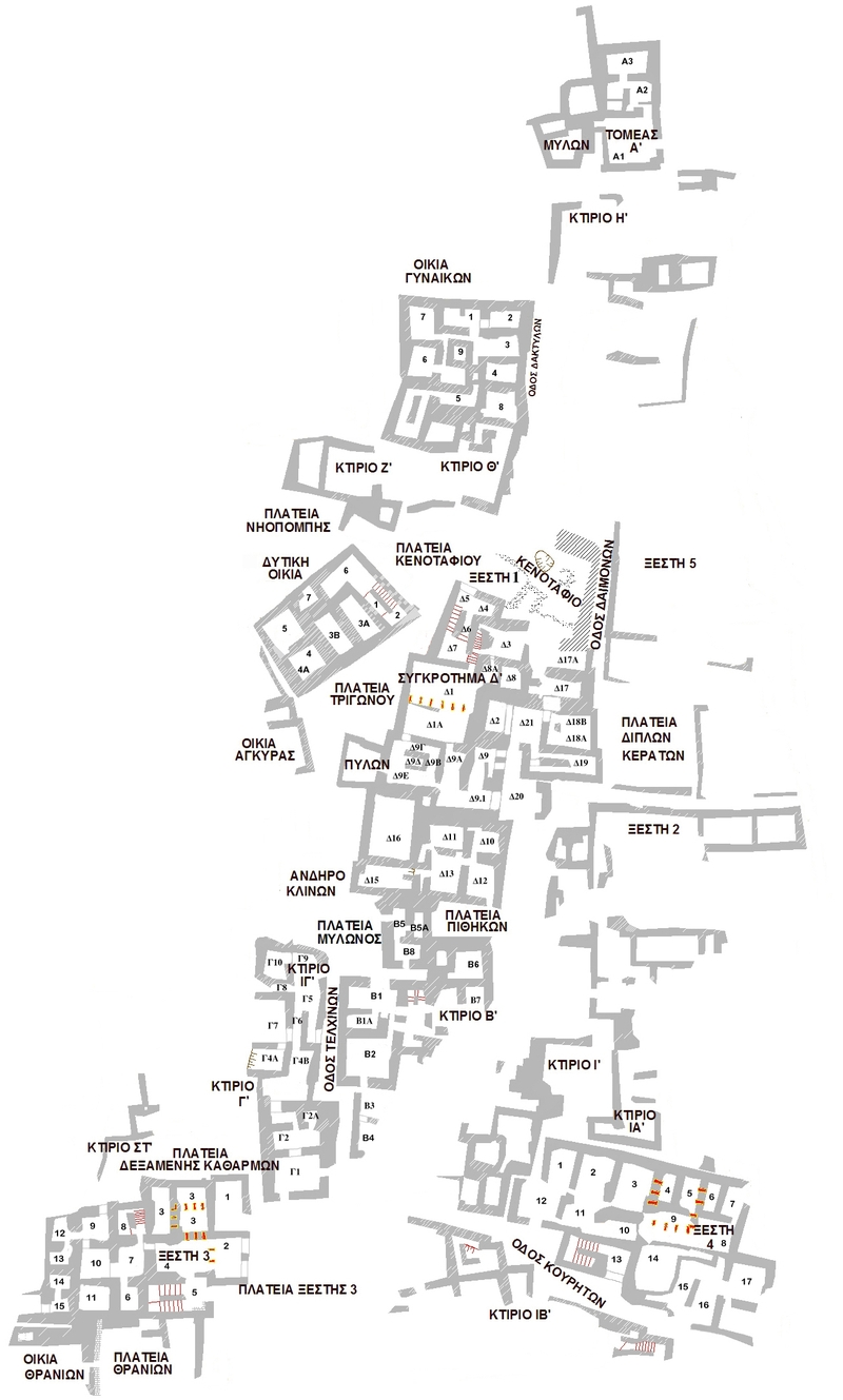 Map of excavations in Akrotiri, Santorini, Greece